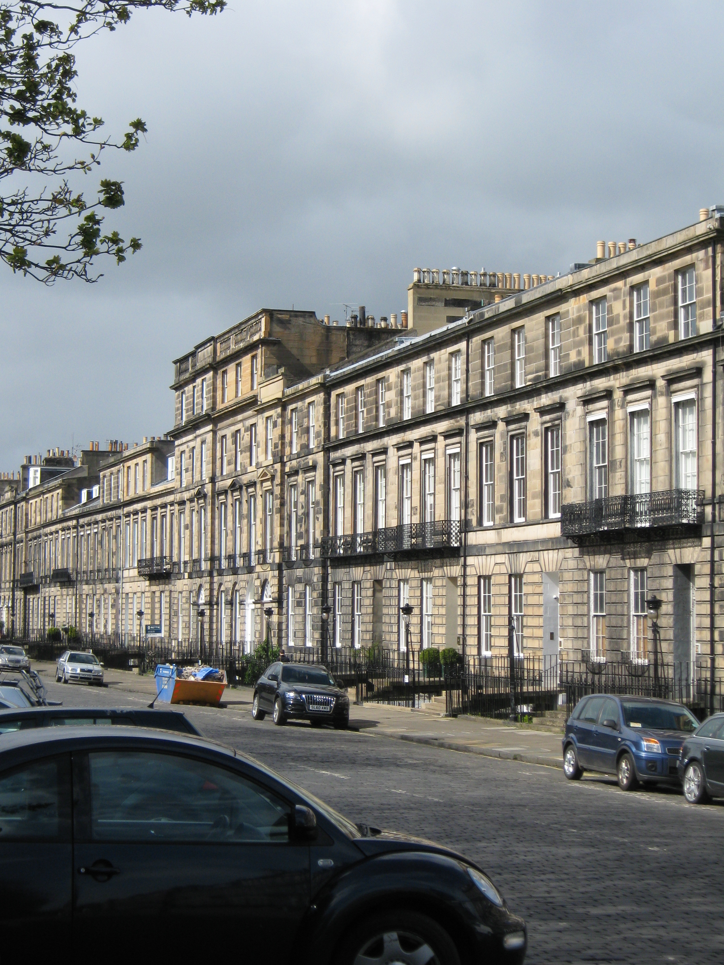 Heriot Row, Edinburgh Location (OSM permalink)